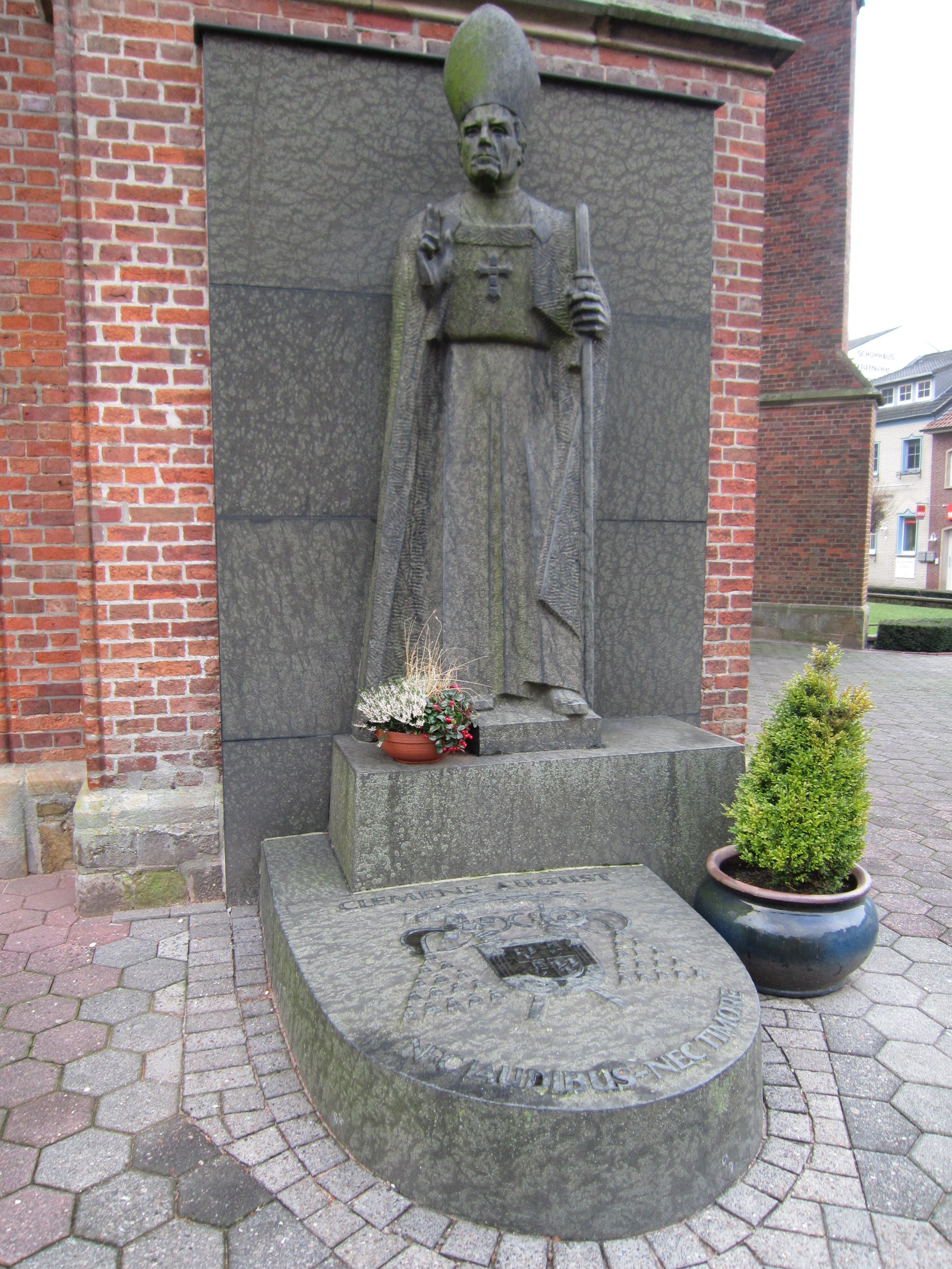 Memorial of cardinal Clemens August Graf von Galen at Dinklage (beside the main entrance of parish church St. Catharina) Unknown